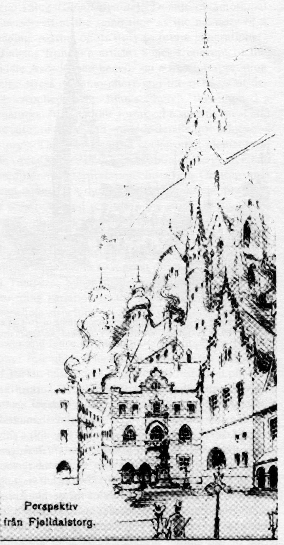 Lars Sonck, Töölö competition drawing, Helsinki, 1899